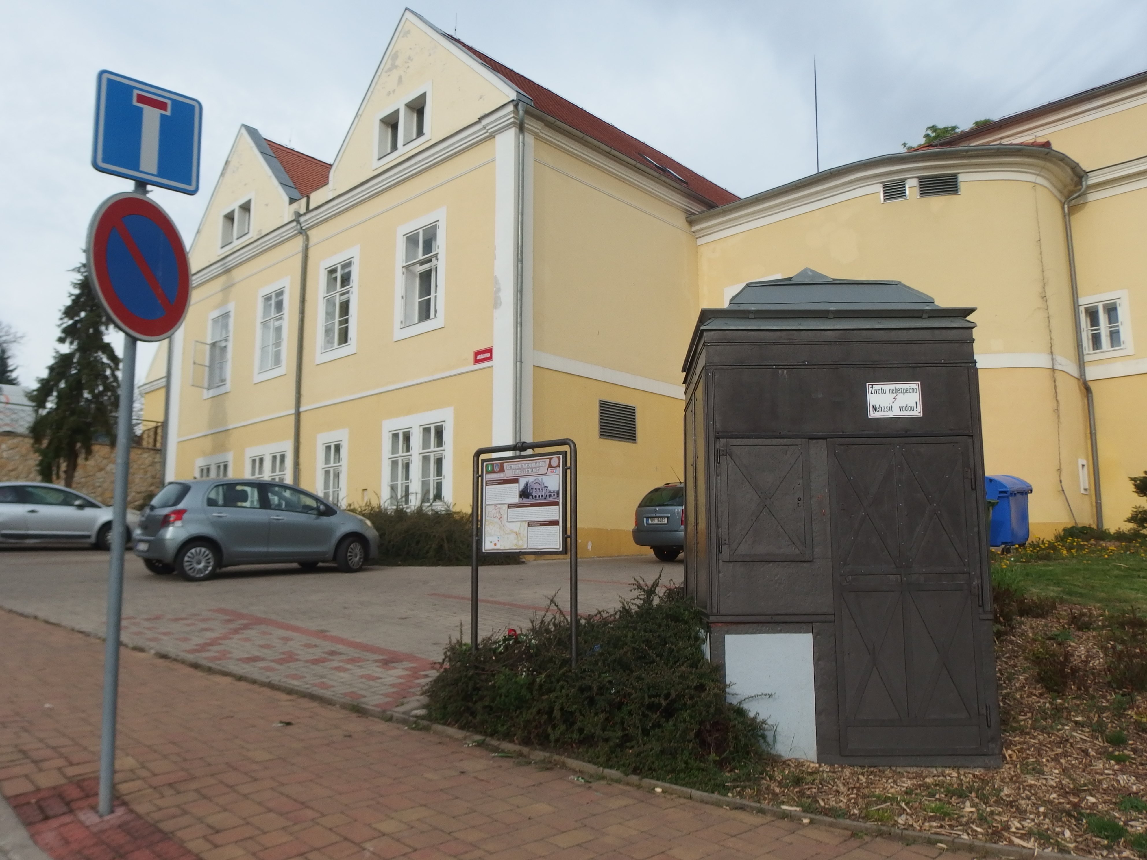 Kadaň, Chomutov District, Czech Republic. Jiráskova street.